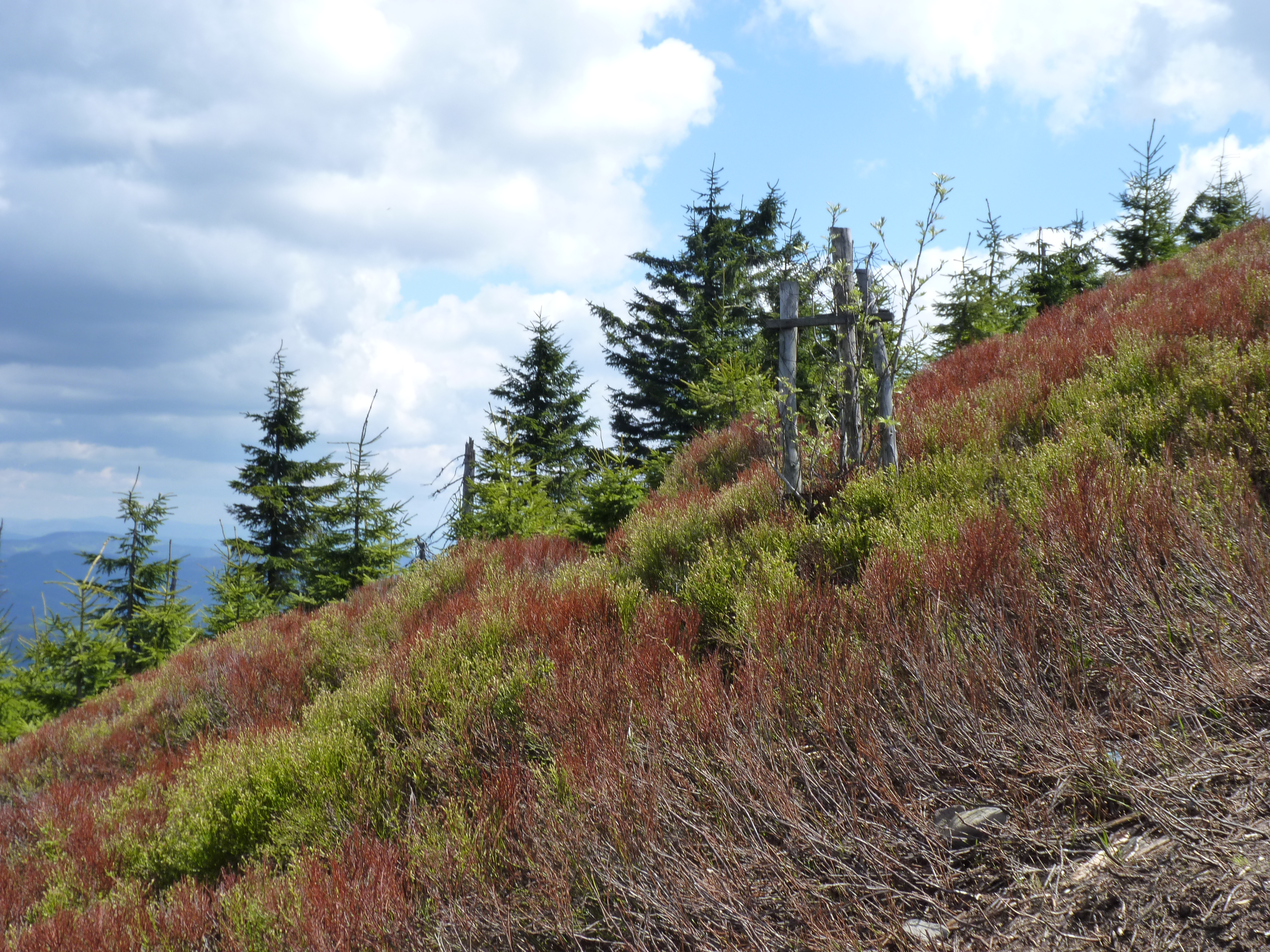 Nature reserve Malenovický kotel. Moravian-Silesian Beskids, Moravian-Silesian Region, Czech Republic Project: Chráněná území